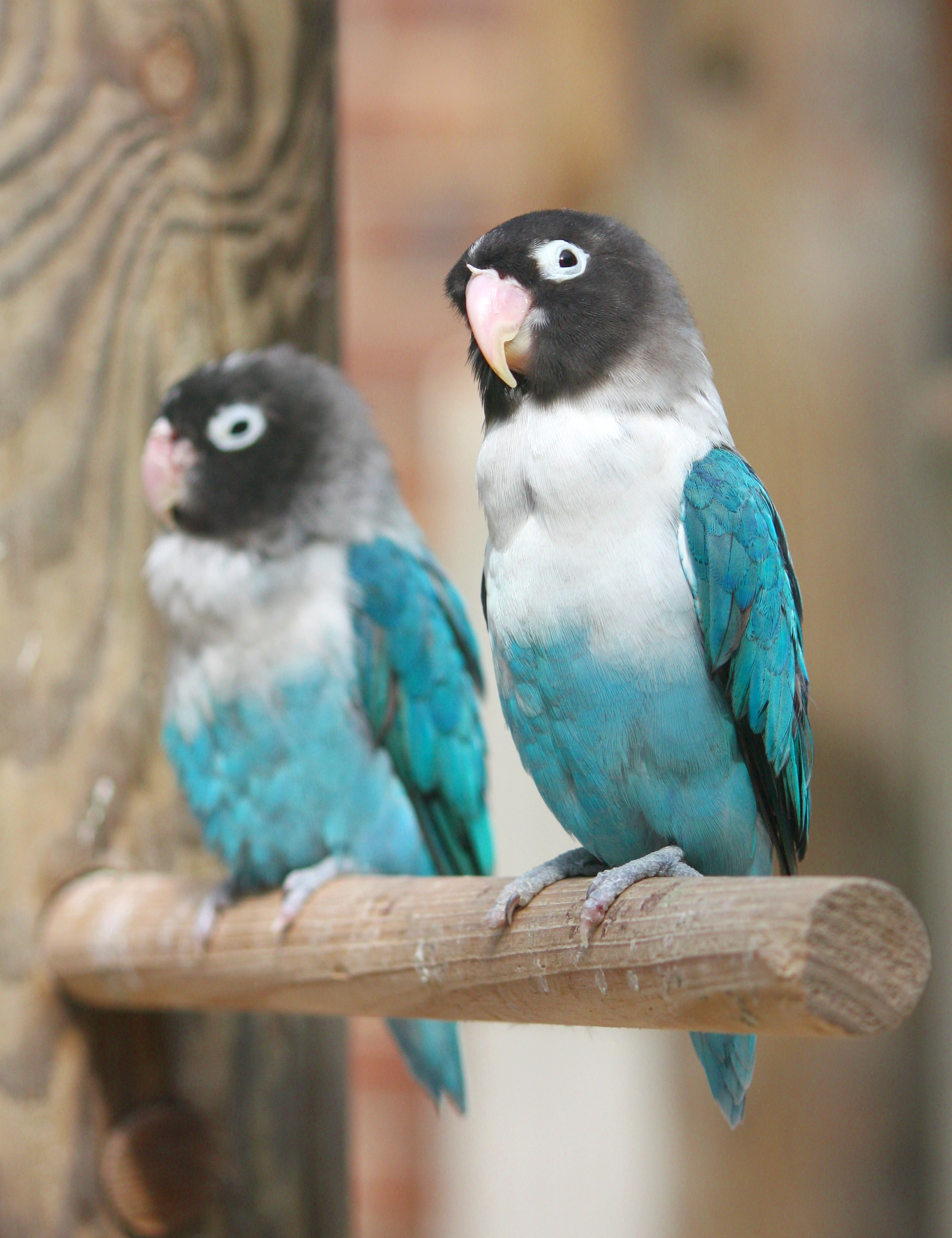 Two Yellow-collared Lovebirds in captivity, they are colour mutants